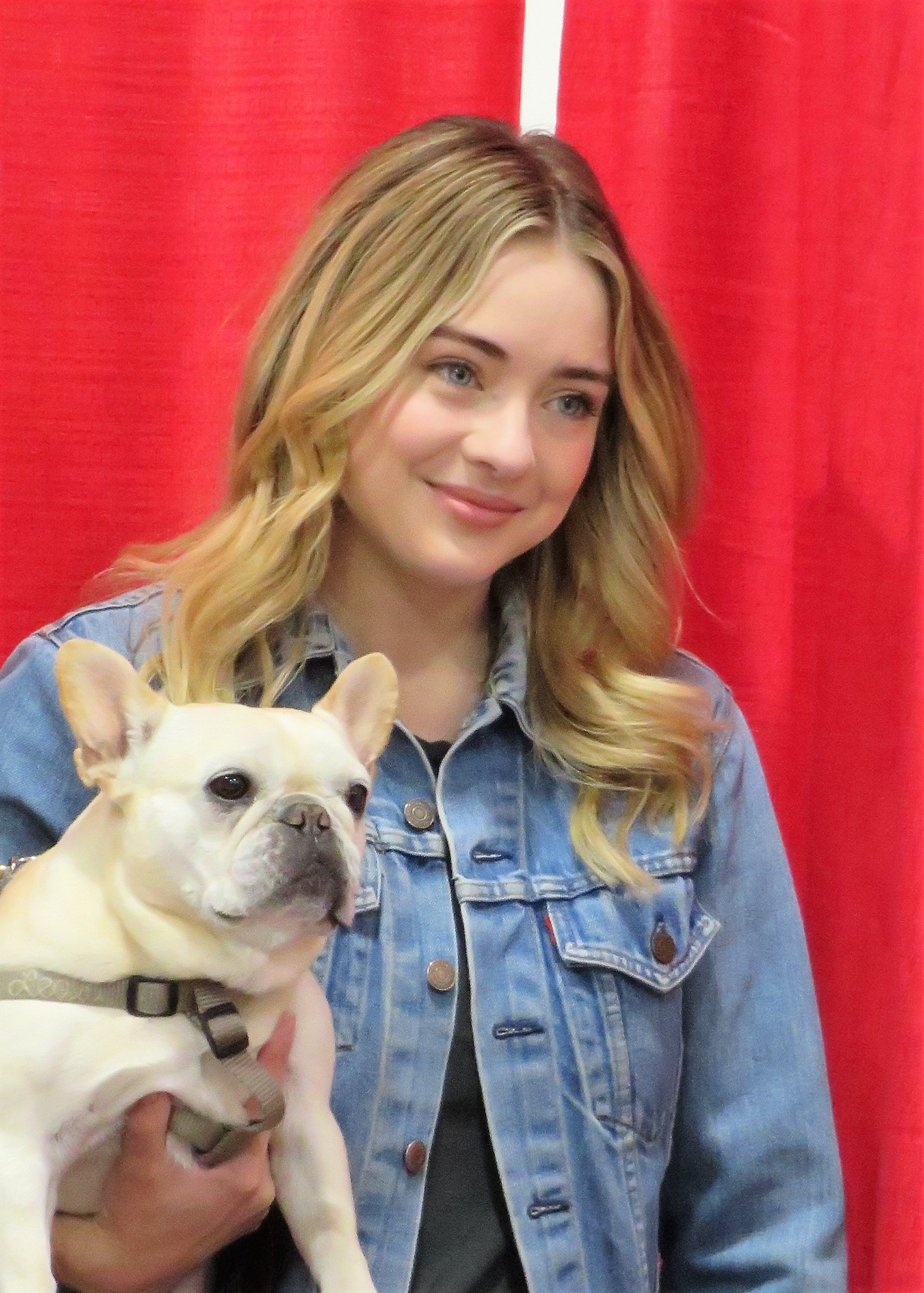 I liked that the dog looks at exactly the same thing she does